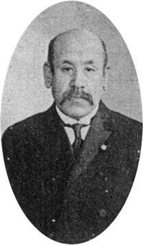 Naka Matoba, Former Director of Koshu Gakko.